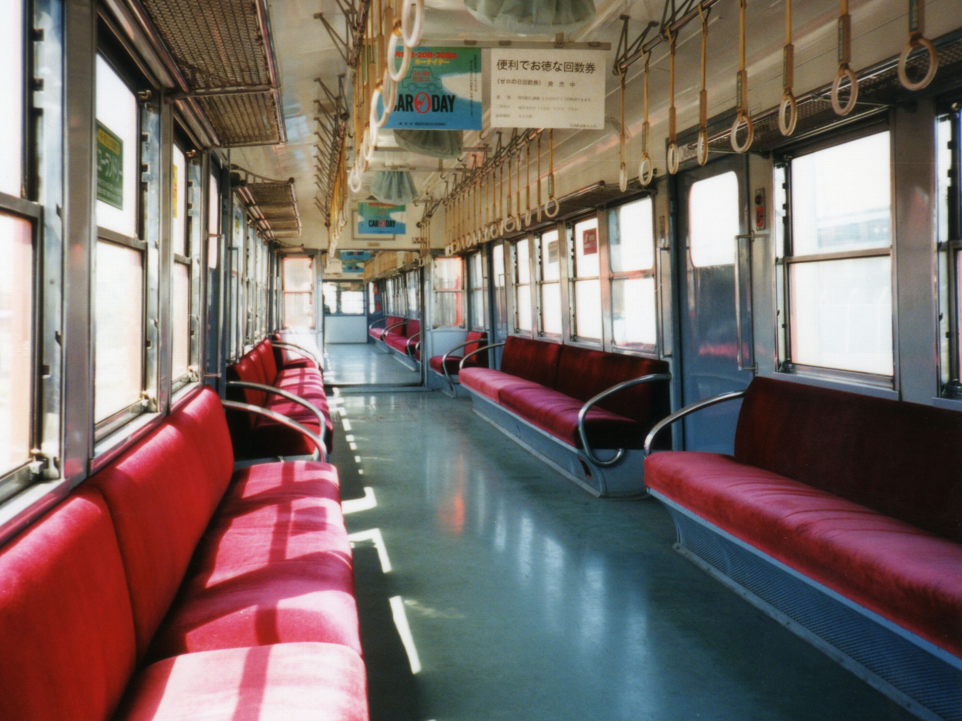 Inside of Gakunan Railway EMU 5000.